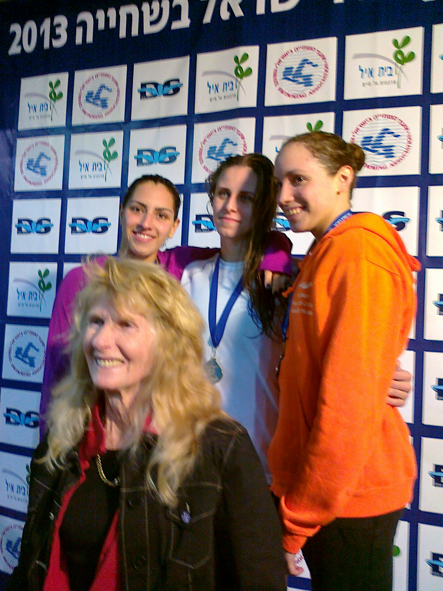 Orna Shimoni, after the medals ceremony for the winners in 200 m medley in the Israelian Championships in swimming 2013, left: Noa Feldman, center: Anastasia Korotkov, right: Adva Braun